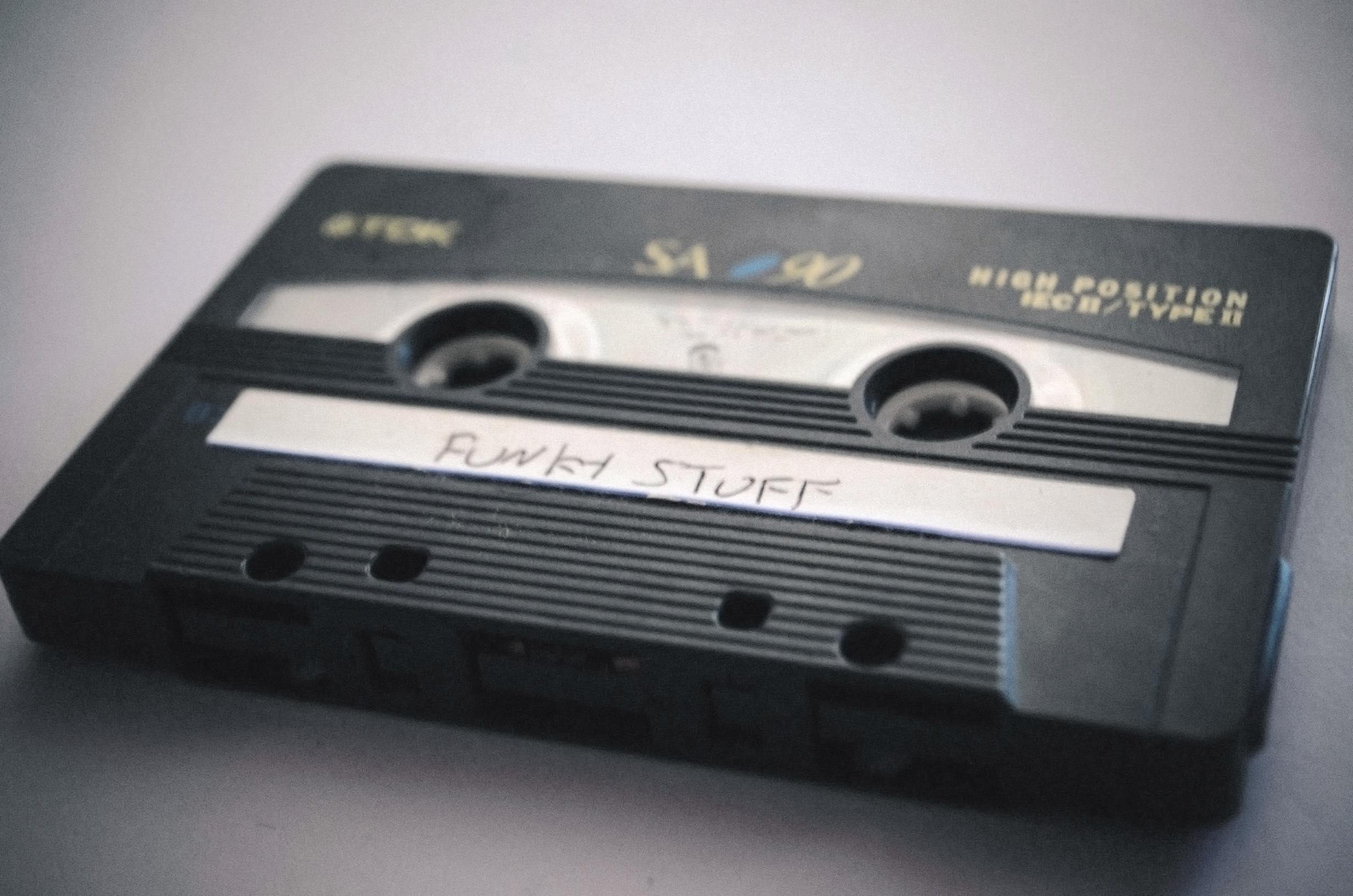 Someone gave me this tape by a DJ called Jerry Thomas. It's upbeat, high tempo stuff, of the type we used to hear a lot at Turnmills.